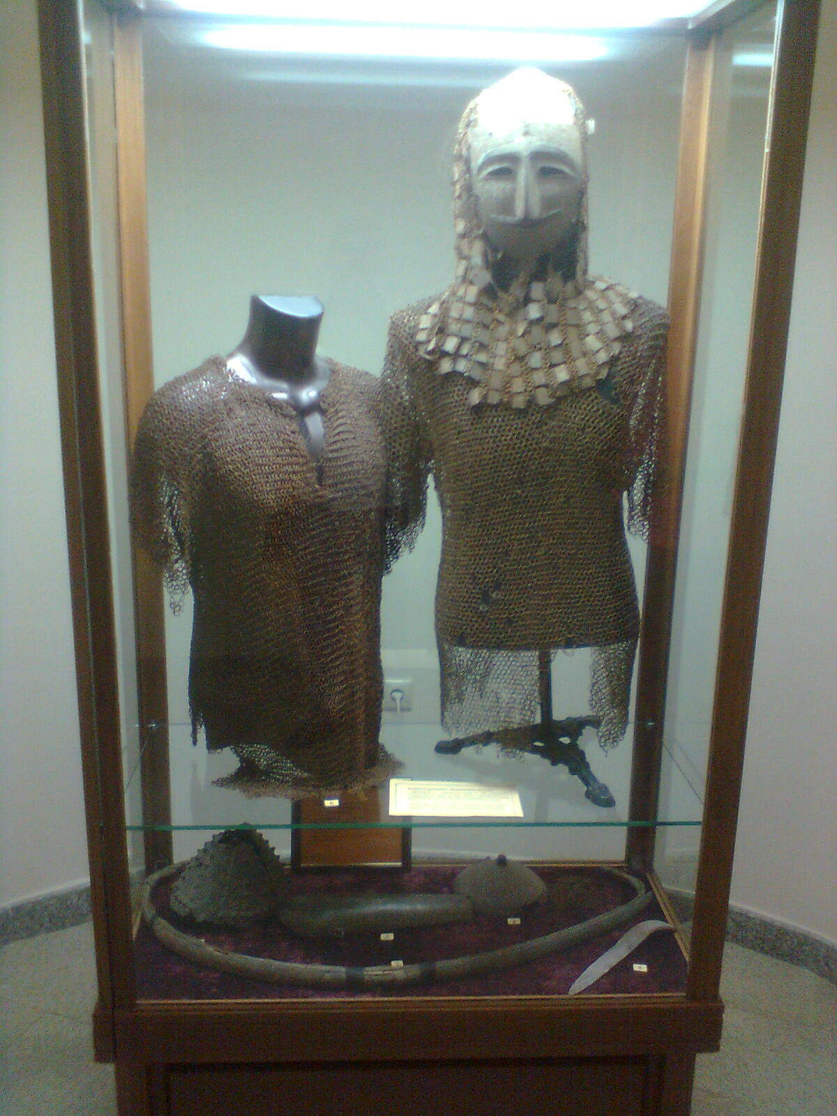 Exhibits from the Chechen National Museum